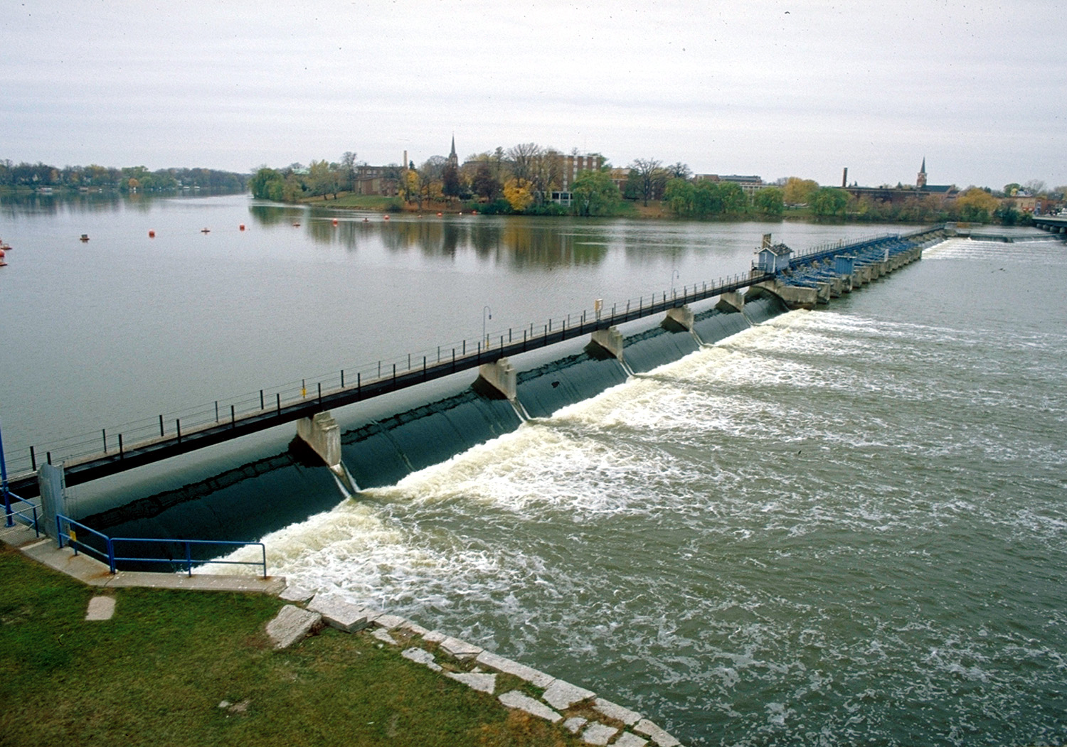 De Pere Dam on the Fox River at De Pere, Brown County, Wisconsin, USA. The dam is at the site of the original Rapides Des Pères (Rapids of the Fathers), the last set of rapids on the Fox River before it enters Green Bay.